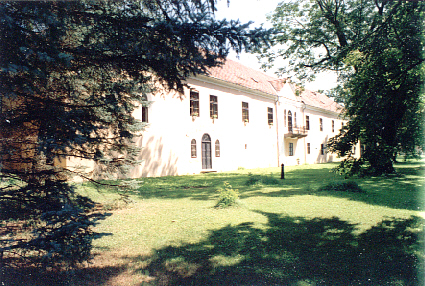 Former chateau in Měšice, part of the town of Tábor, South Bohemian Region, Czech Republic.